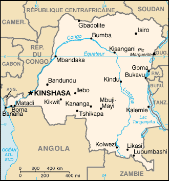 French map of the Democratic Republic of the Congo